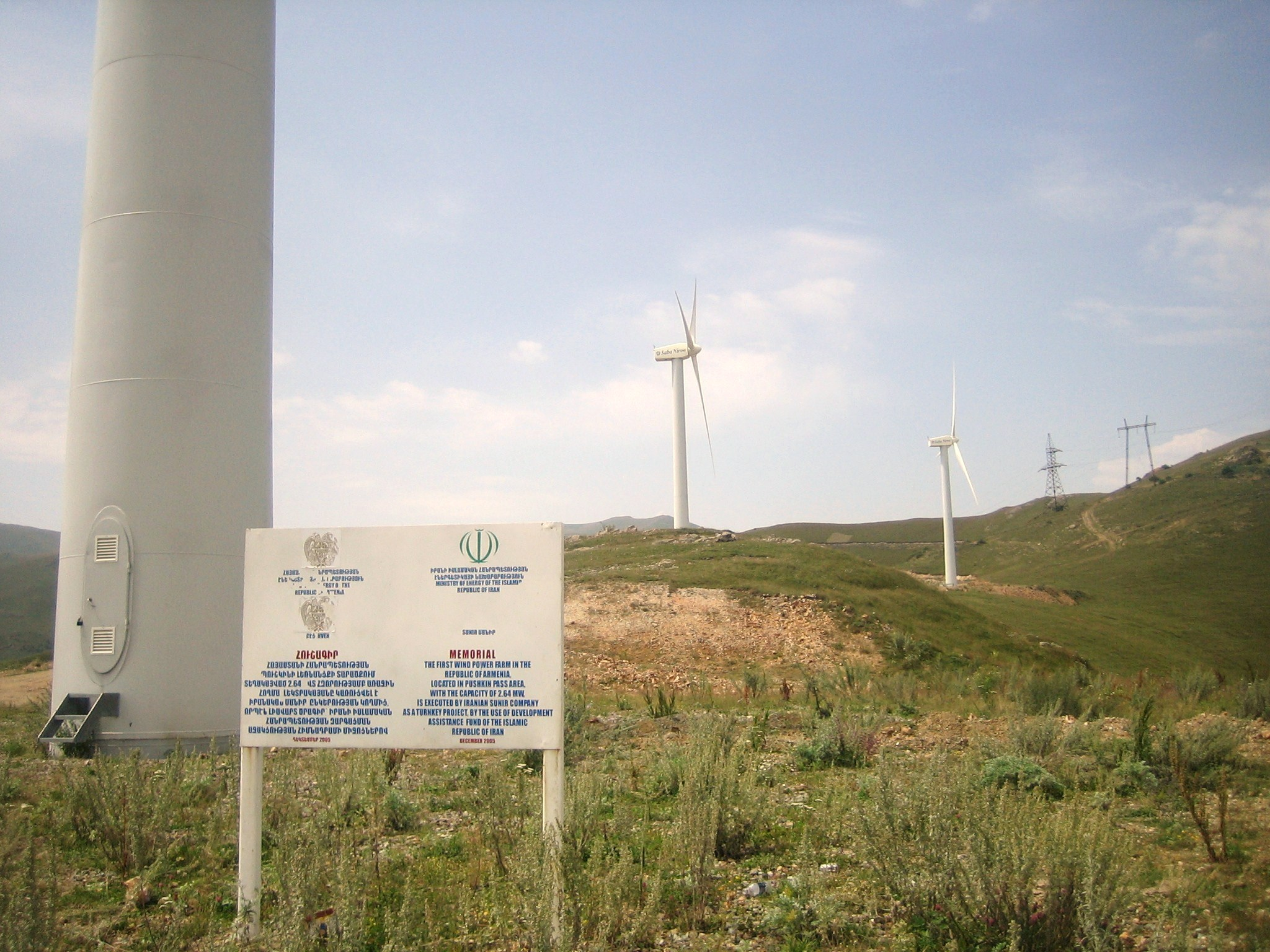 The Republic of Armenia's first Wind Power farm is located in the northern region of Lori along the Bazum Mountains at Pushkin Pass. The wind farm has a capacity of 2.64 MegaWatts and consists of 4 wind turbines. As explained on the sign, it was completed on December 2005 by the Iranian company "Sunir" with funding from the Islamic Republic of Iran.